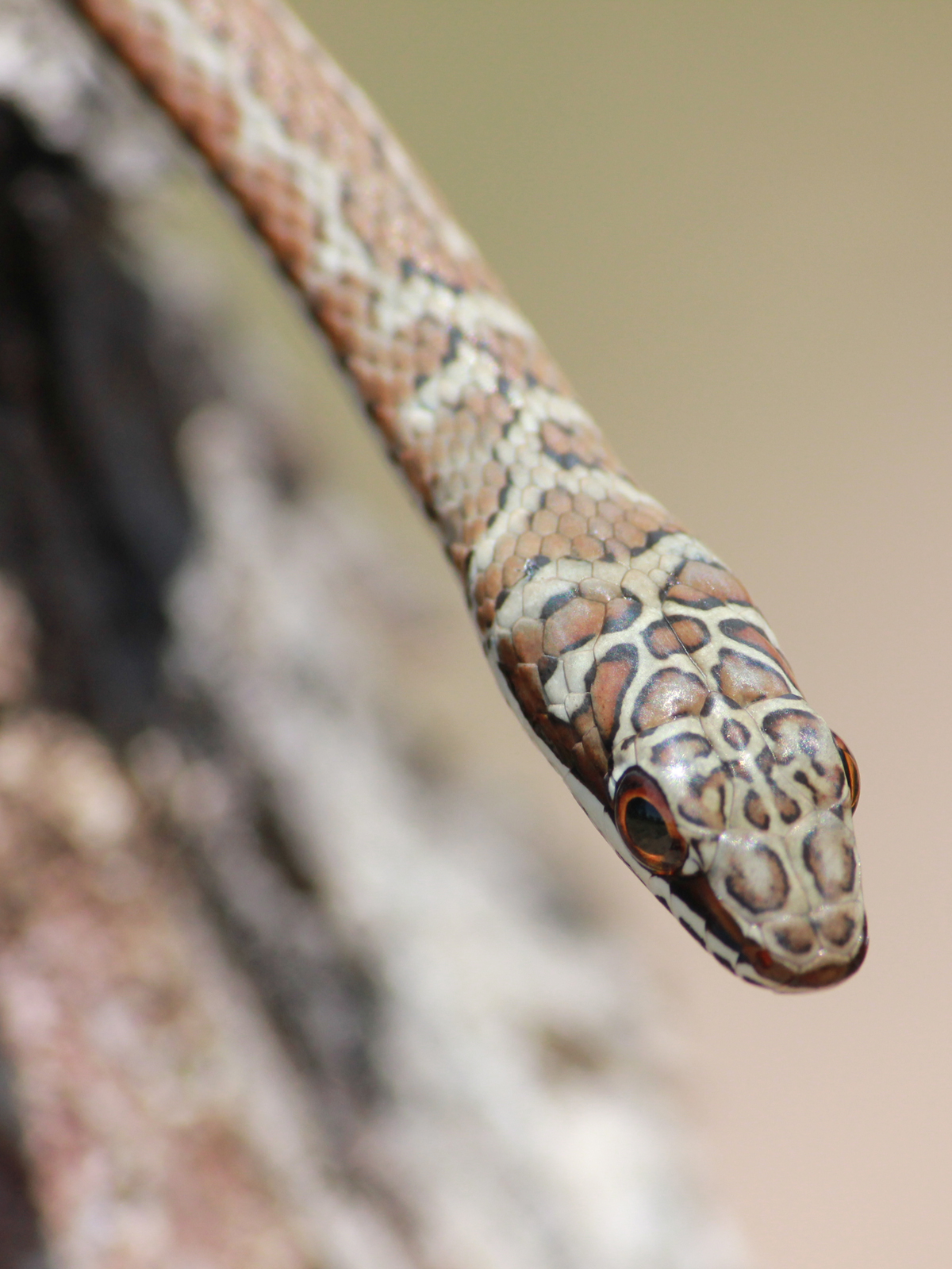 Psammophis subtaeniatus, Limpopo, South Africa